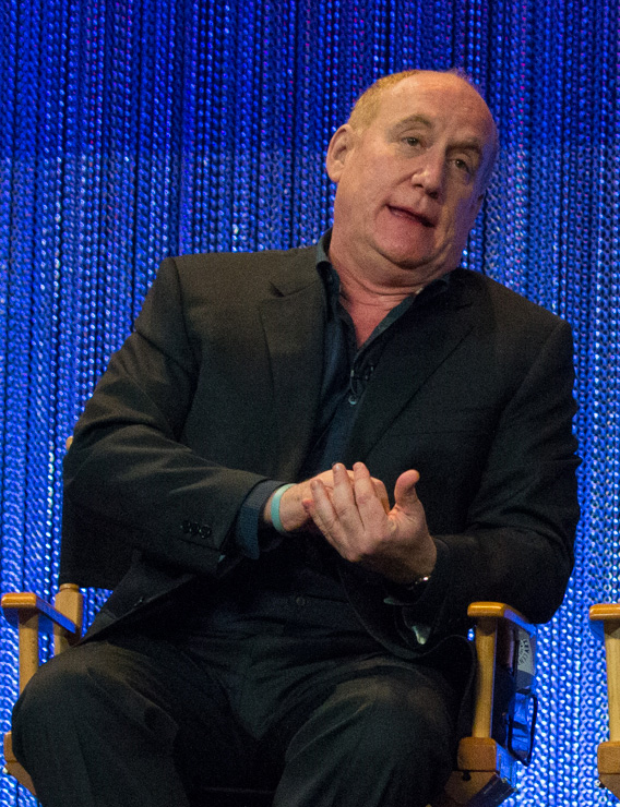 Jeph Loeb at PaleyFest 2014